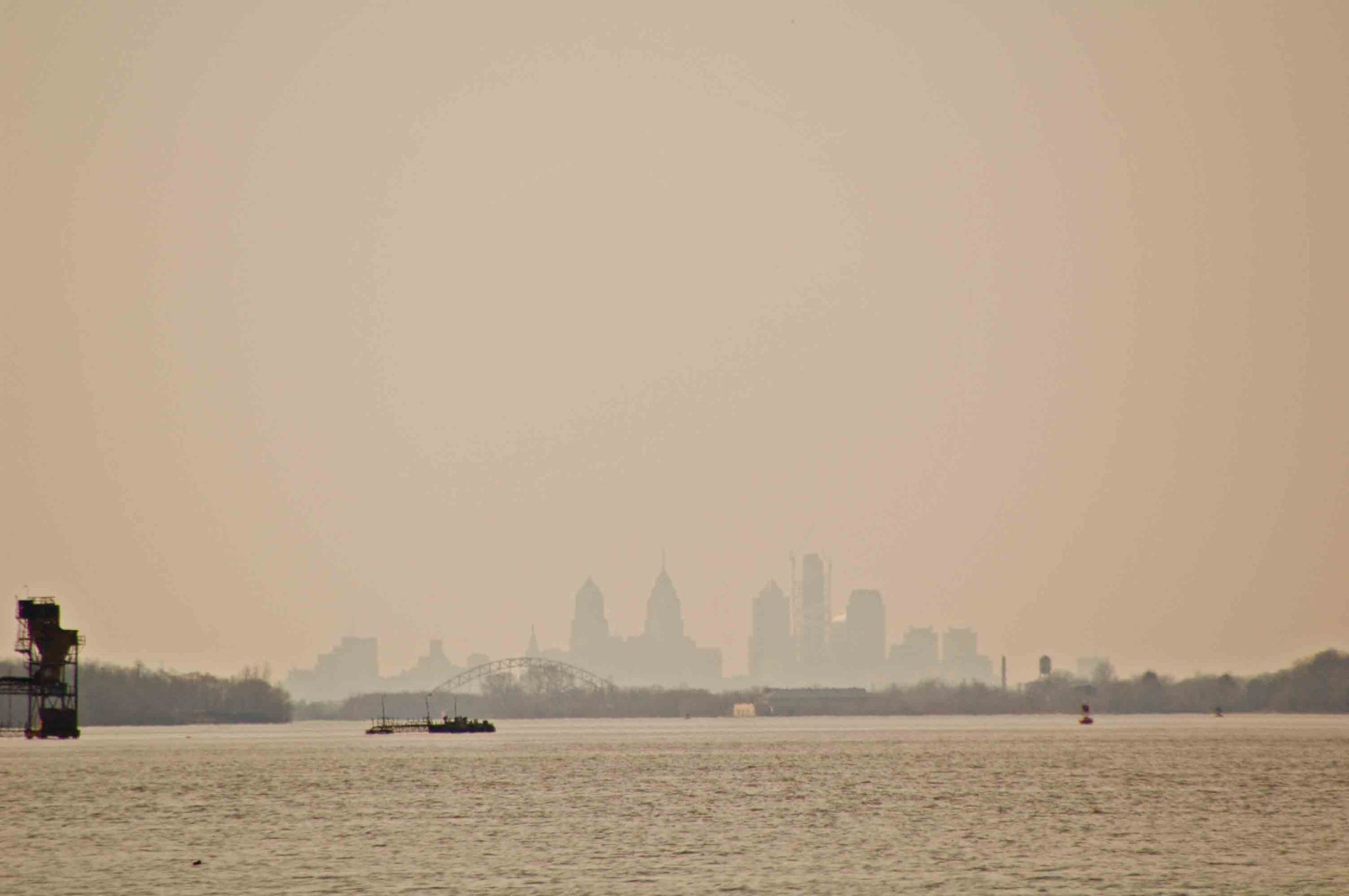 300mm lens on DSLR. You can see the new building going up. It will be the tallest building in Philly when it's done. Taken from Neshaminy State Park in Bucks County.